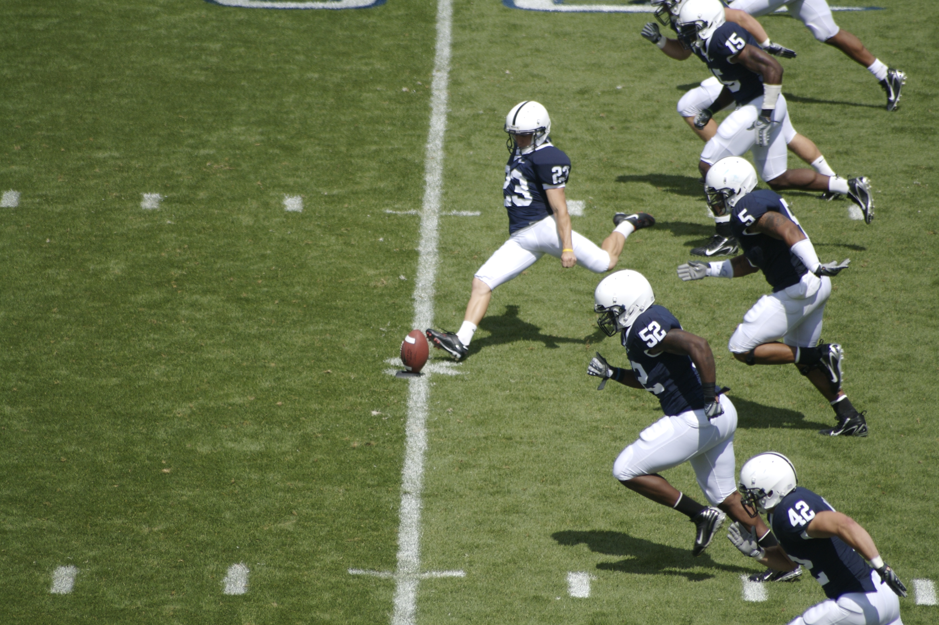 Penn State kicks the ball off in their 2007 season opener.